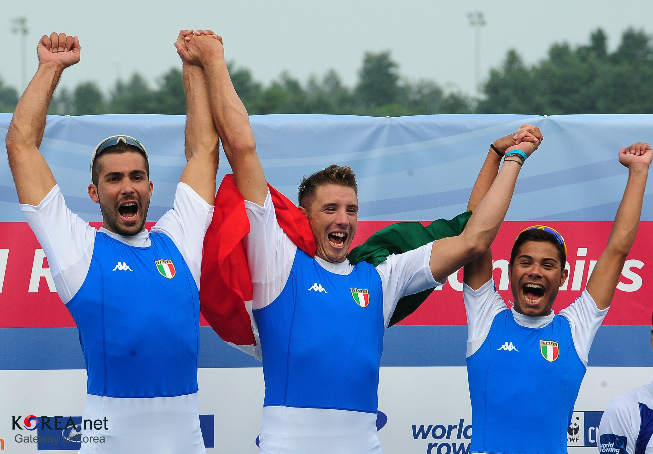 2013 Chungju World Rowing Championships 2013.08.24. – 09.01. -Related Articles- -English- World Rowing Championships kicks off in Chungju -中文- 2013忠州世界赛艇锦标赛开幕 - tiếng Việt- Giải Vô địch Đua thuyền Thế giới khai mạc tại Chungju - Deutsch- Ruder-Weltmeisterschaften in Chungju haben begonnen - 日本語 - 2013忠州世界ボート選手権大会、ローイング（Rowing)競技始まる - Russian - В Чхунжду начинается Чемпионат мира по академической гребле -Francais- Les championnats du monde d'aviron à Chungju sont ouverts ! -Arabic- بطولة العالم للتجديف تنطلق في تشونج جو Ministry of Culture, Sports and Tourism 2013 충주세계조정선수권대회 문화체육관광부